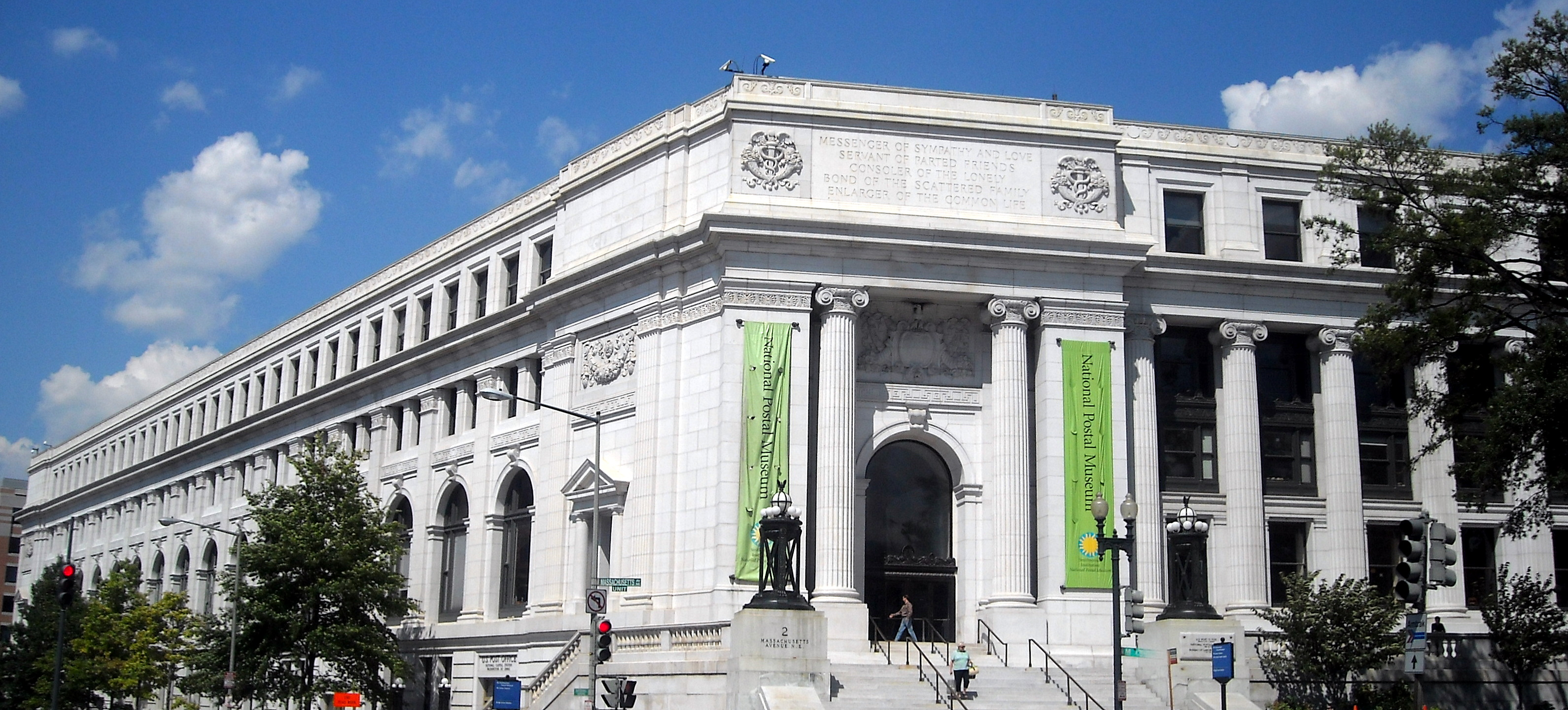 The Postal Square Building at 2 Massachusetts Avenue, NE in Washington, D.C. The building is listed on the National Register of Historic Places.